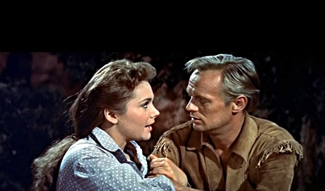 This image is a screenshot from a public domain trailer for the 1956 film, The Last Wagon . Trailers for movies released before 1964 are in the Public Domain because they were never separately copyrighted.